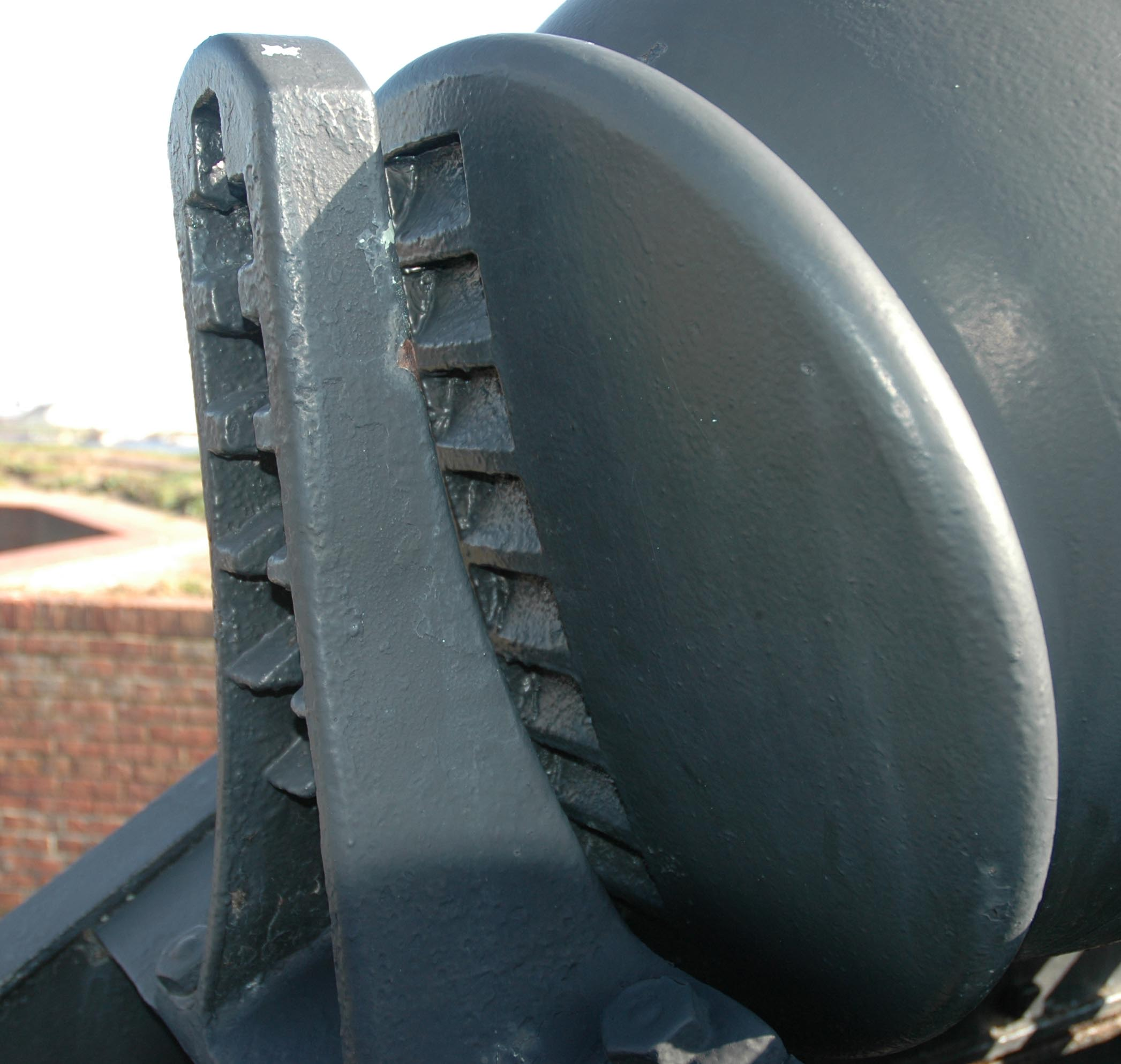 Breech of 8-inch Rodman gun at Ft. McHenry,showing older pattern elevation notches